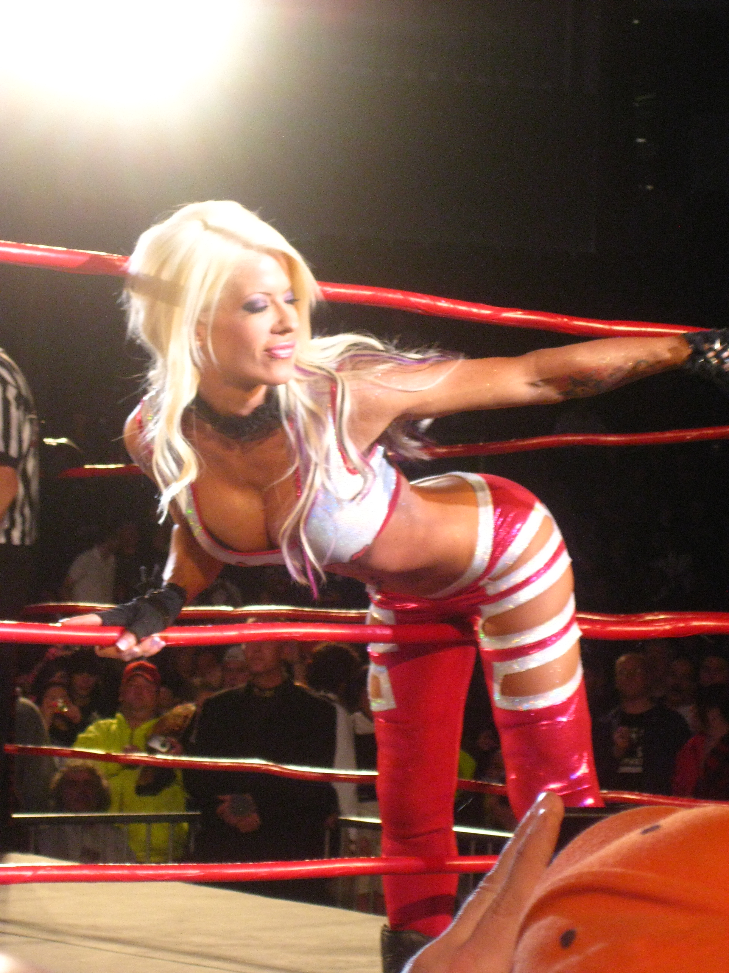 A photo of Angelina Love, a Canadian professional wrestler. Taken at the ShoWare Center in Kent, Washington.